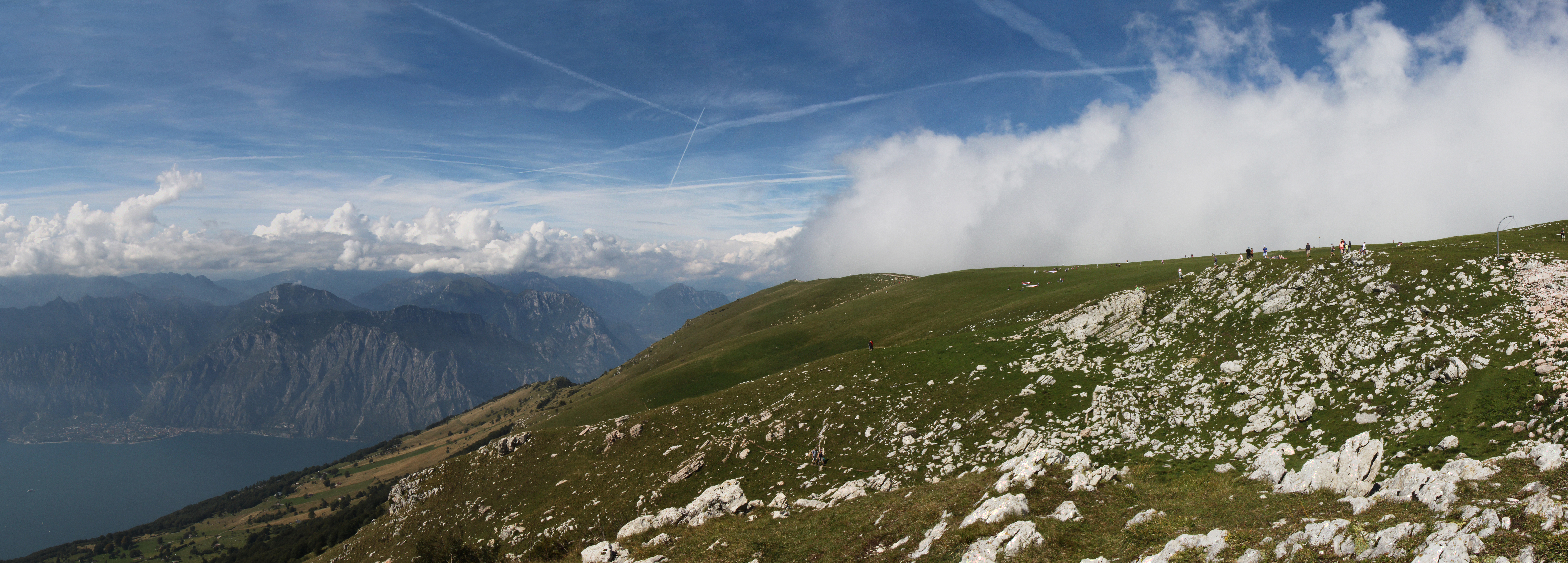 Cloud at Monte Baldo, Trento, Italy. On the left Lake Garda and Limone.